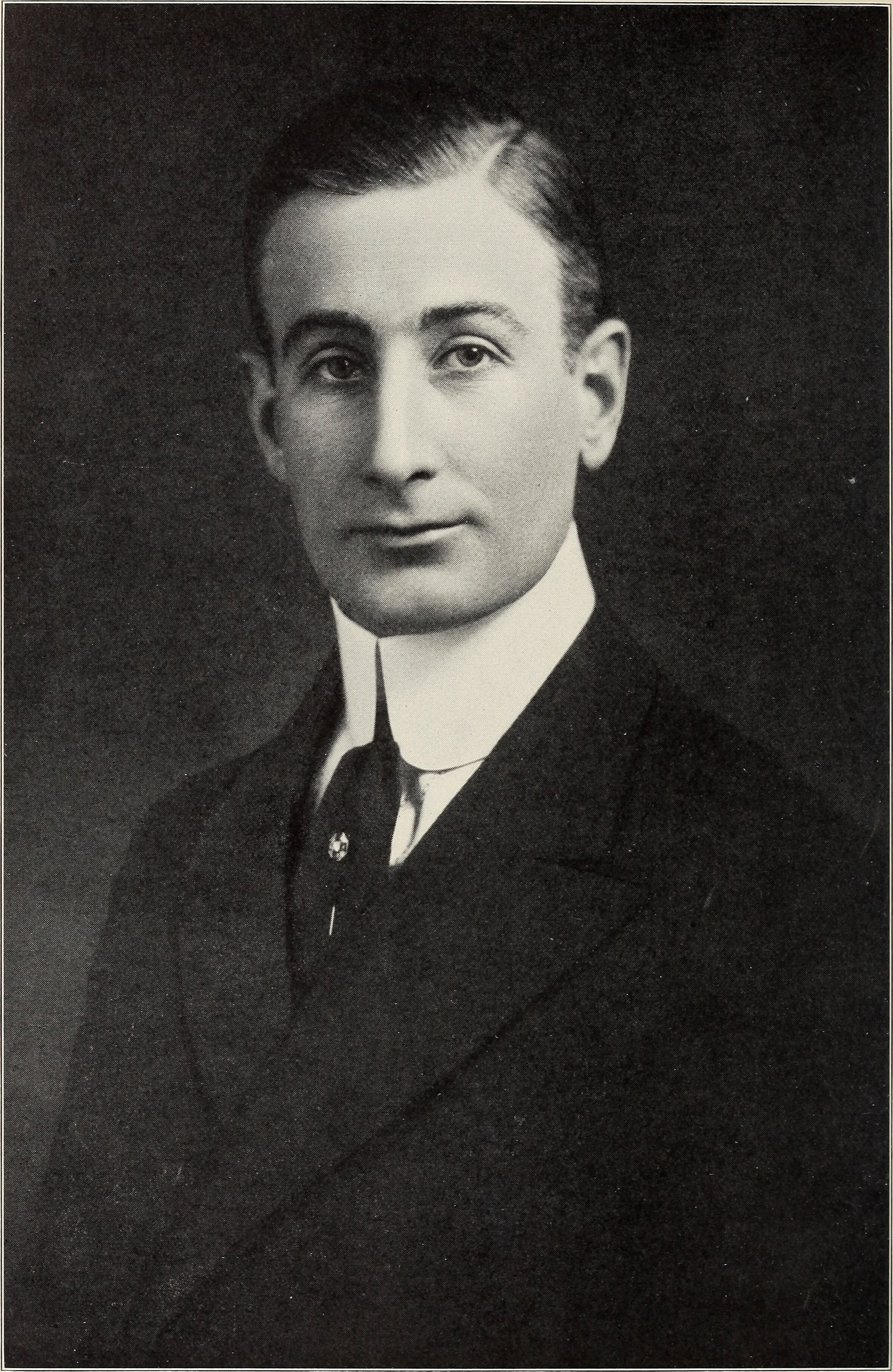 Title: Annual report of the Director to the Board of Trustees for the year .. Year: 1906 (1900s) Authors: Field Museum of Natural History Subjects: Field Museum of Natural History; Natural history Publisher: Chicago, U. S. A. : Field Museum of Natural History Text Appearing Before Image: FIELD MUSEUM OF NATURAL HISTORY. REPORTS, PLATE XLIV. Text Appearing After Image: Stanley Field, President.